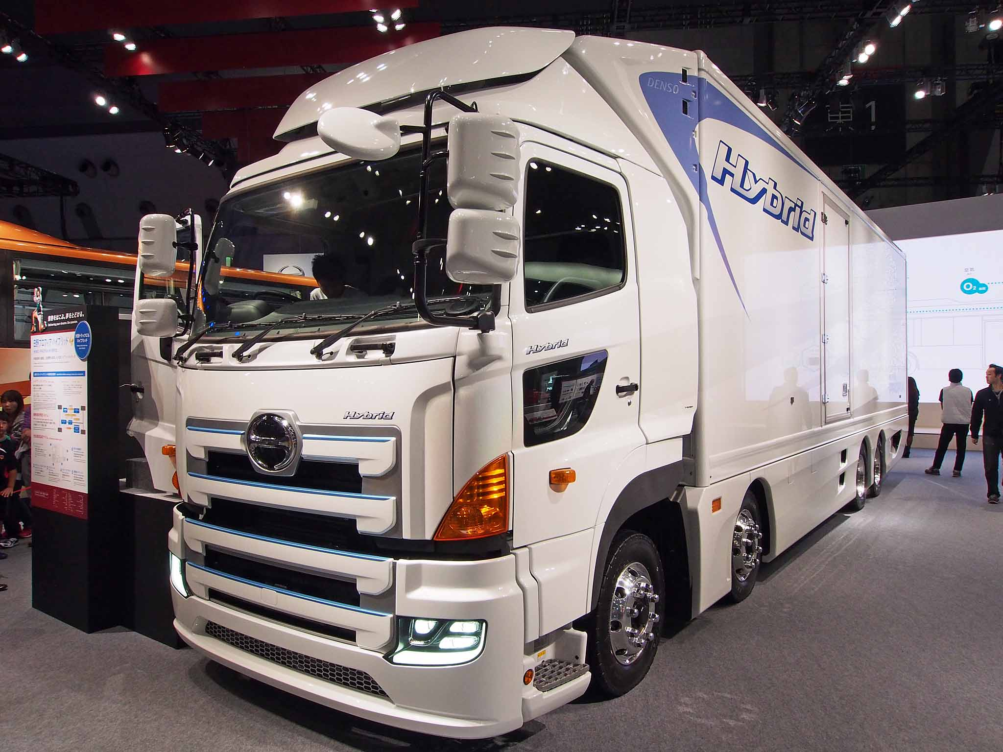 Hino Profia Hybrid, displayed at Tokyo Motor Show 2015. Box manufacturer: Trantechs